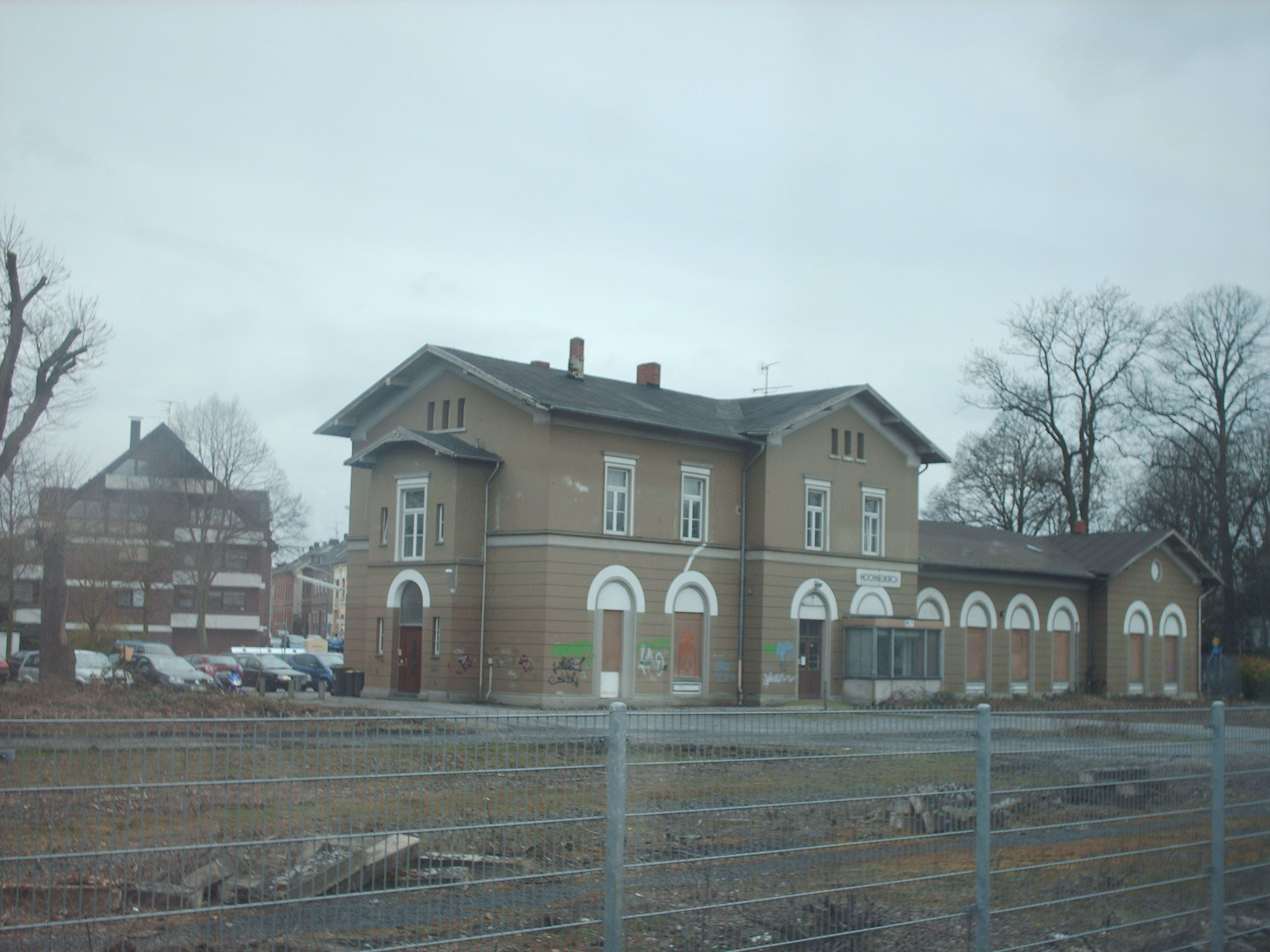 Hochneukirch station, Jüchen, Germany check usage